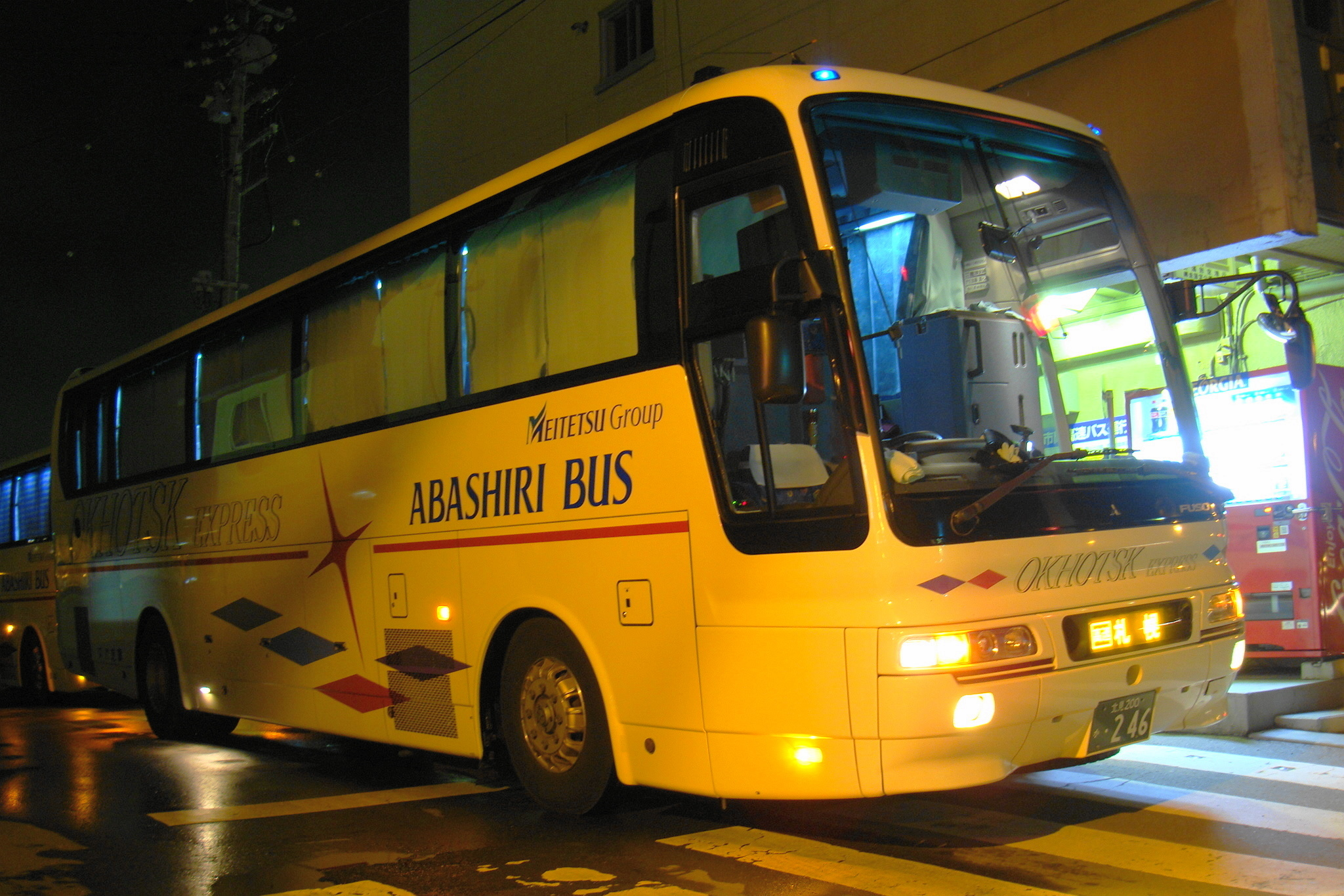 "Dreamint Okhotsk gō" Abashiri to Sapporo